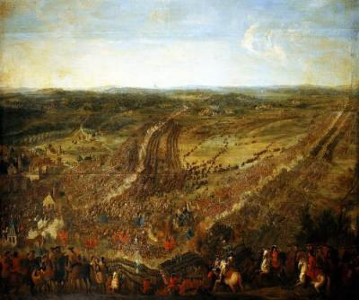 Battle of Fleurus, 1 July 1690. Oil on canvas by Pierre-Denis Martin